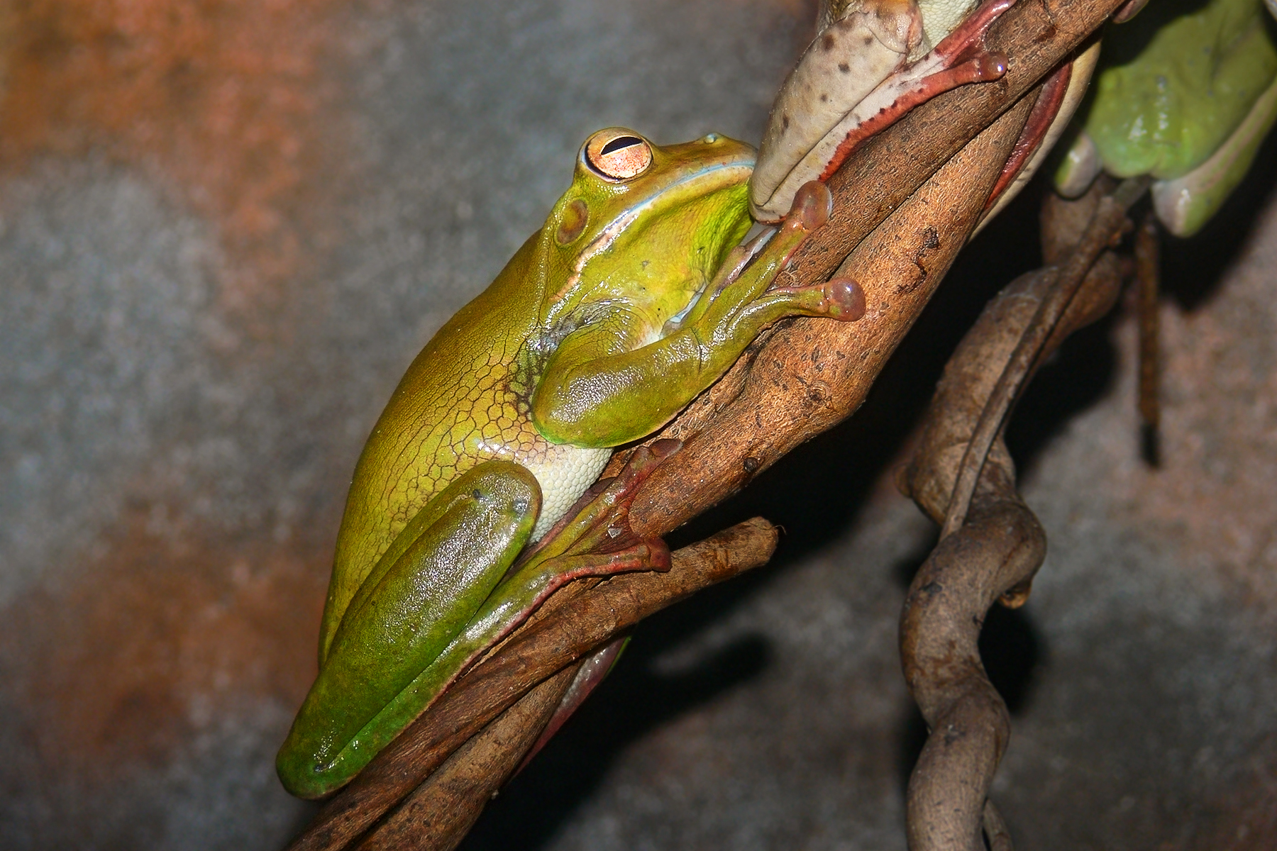 Giant tree frog.